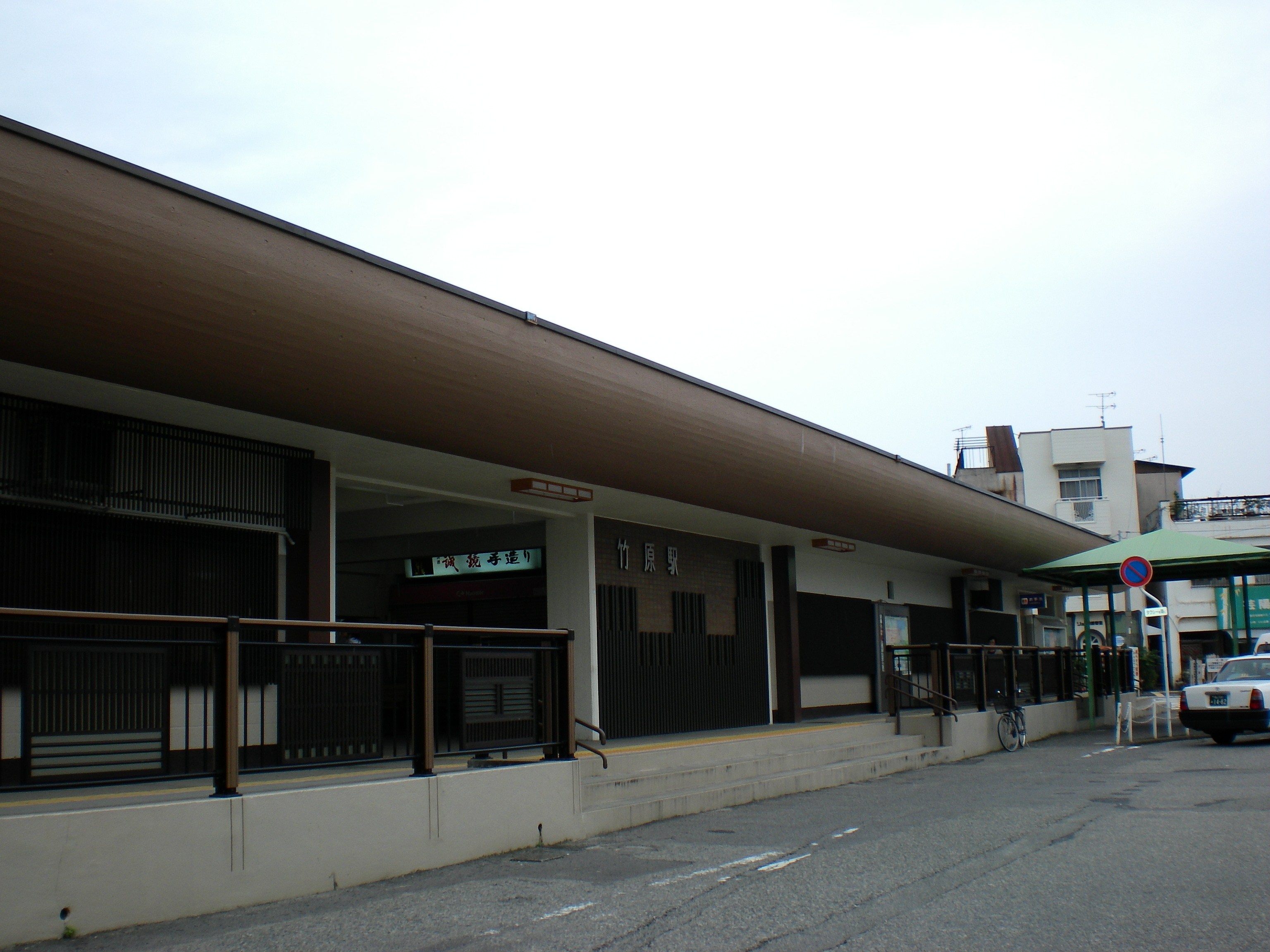 Entransce of Takehara Station in Takehara, Hiroshima, Japan.